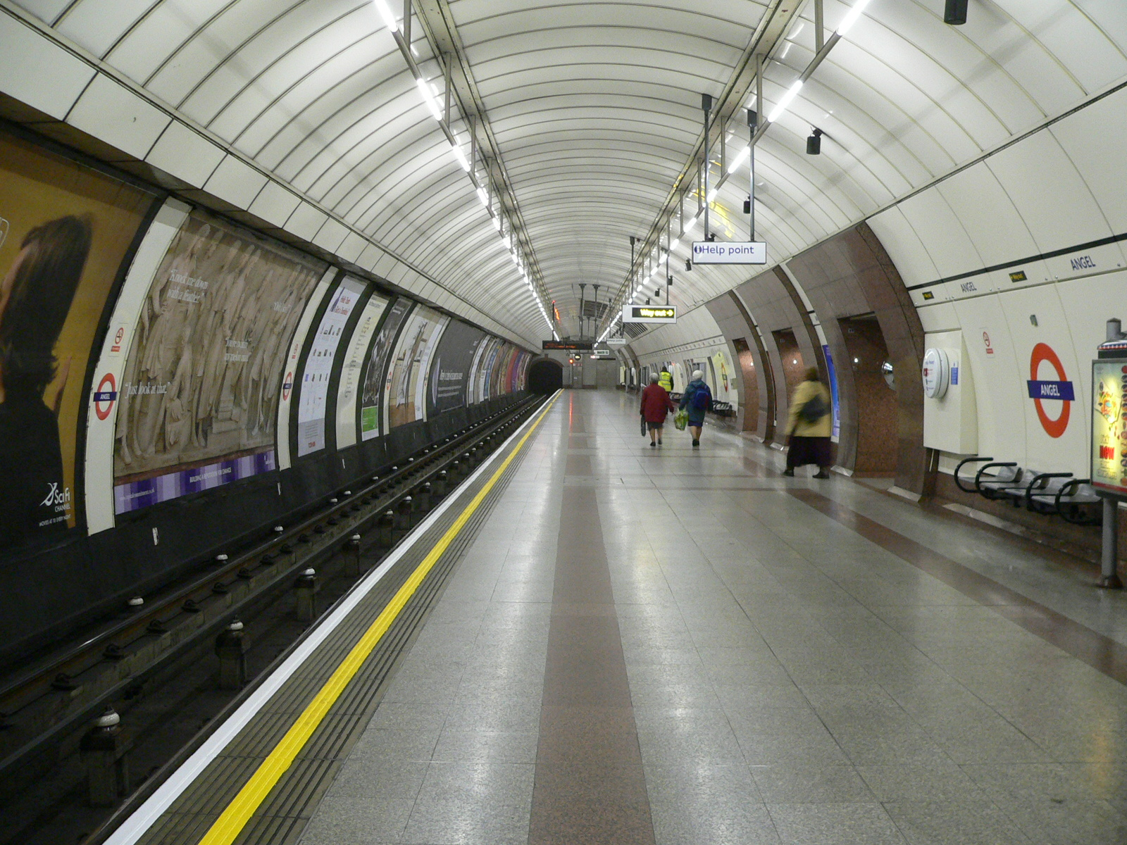 The extra-wide southbound platform at London Underground's Angel station. To combat chronic overcrowding a new section of tunnel was excavated in 1992 for a new northbound platform and the southbound platform was rebuilt to completely occupy the original 30-foot tunnel.